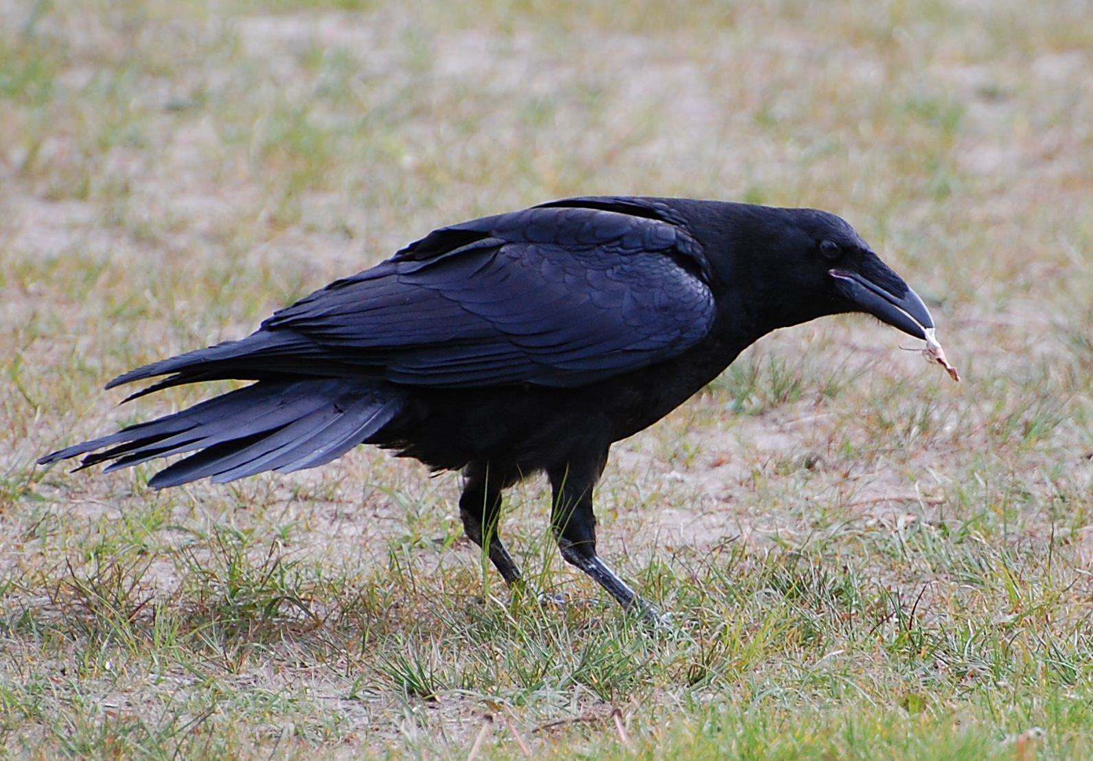 Common Raven (Corvus corax), juvenile, playing with dead leaf. Berlin, Germany